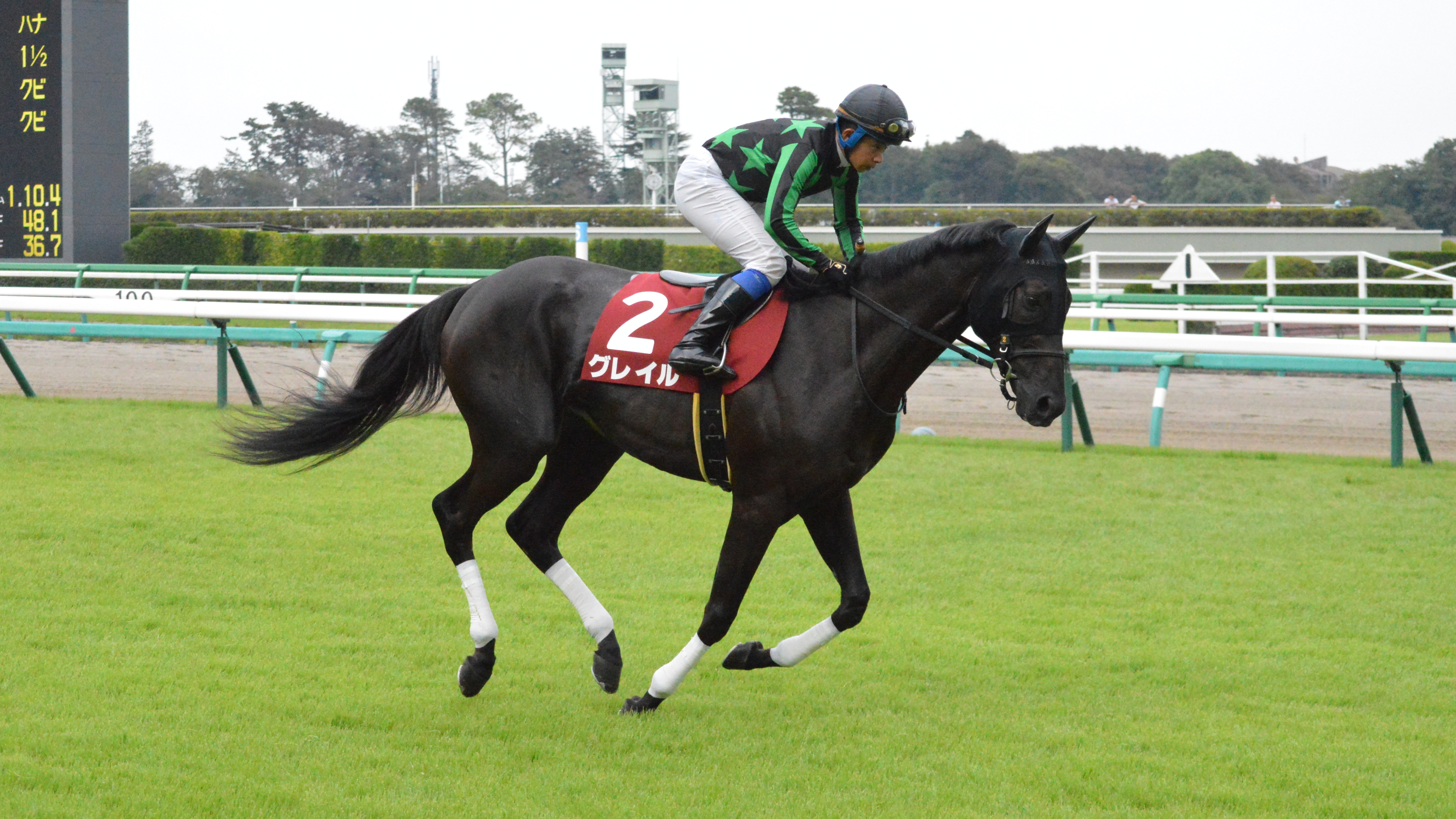 Japanese race horse Grail at Nakayama racecourse. Nakayama (JPN) 17 Sep 2018Asahi Hai St. Lite Kinen (Grade 2) (3yo) (Turf) 1m3f Firm RankHorse NameOddsAgeWgtTrainerJockey1stGenerale Uno (JPN)63/10C38-11Hironobu TanabeEiichi Yano3rdGrail (JPN)184/10C38-11Kenji NonakaYasunari IwataOthers are omitted. (15 horses entered in a race.)